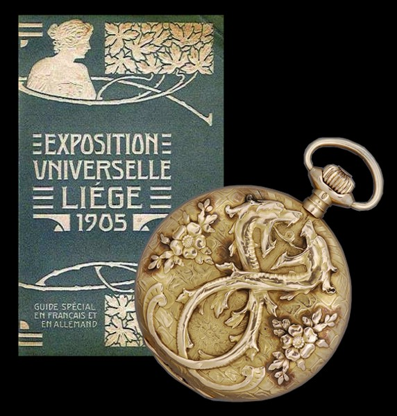 Gallet electa liege